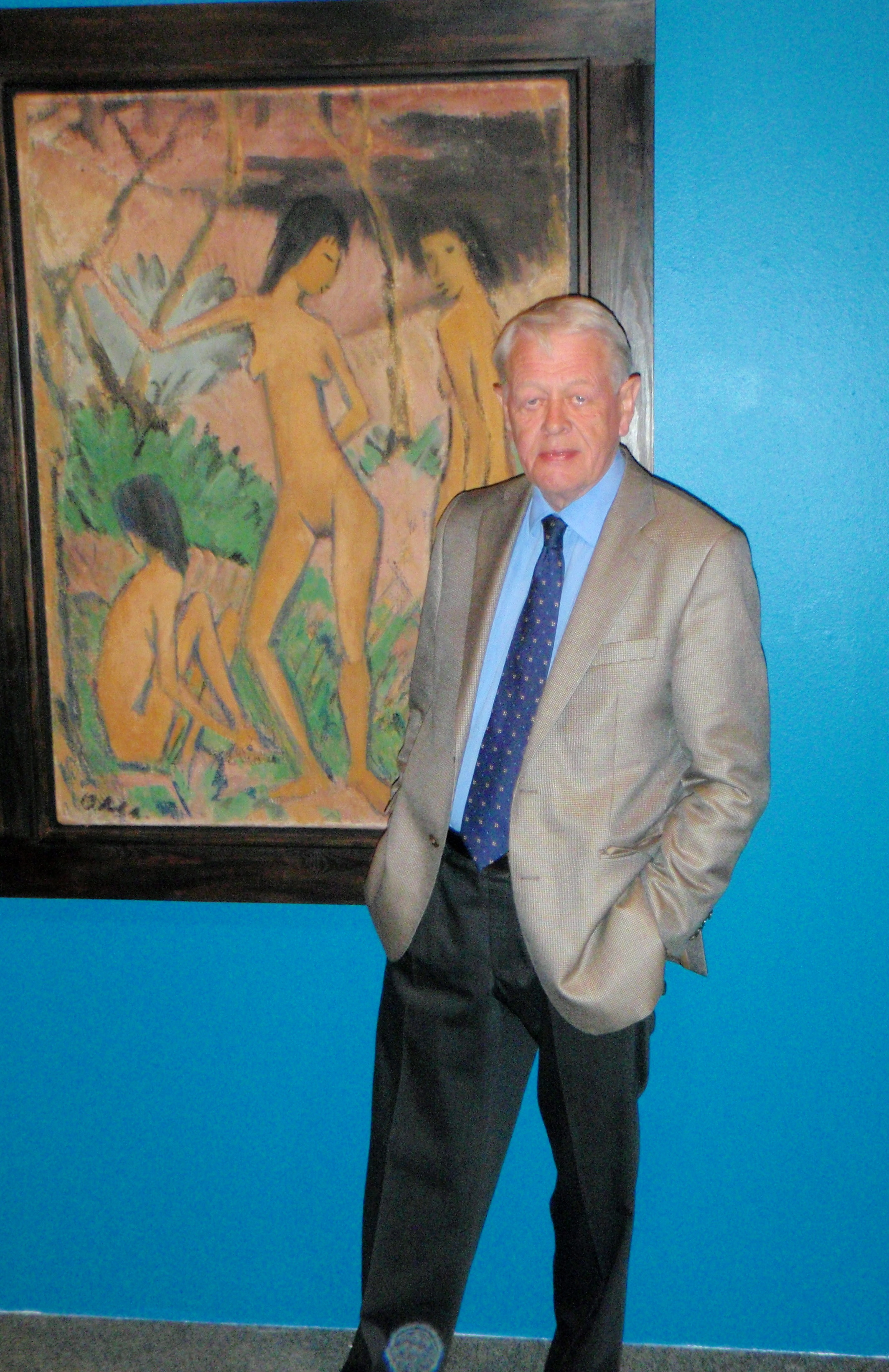 Kåre Valebrokk is amomgst other things director of the board of Bergen kunstmuseer. Pic taken at the opening of exhibition of German expressionists. (Painter dead for 70 yrs+)